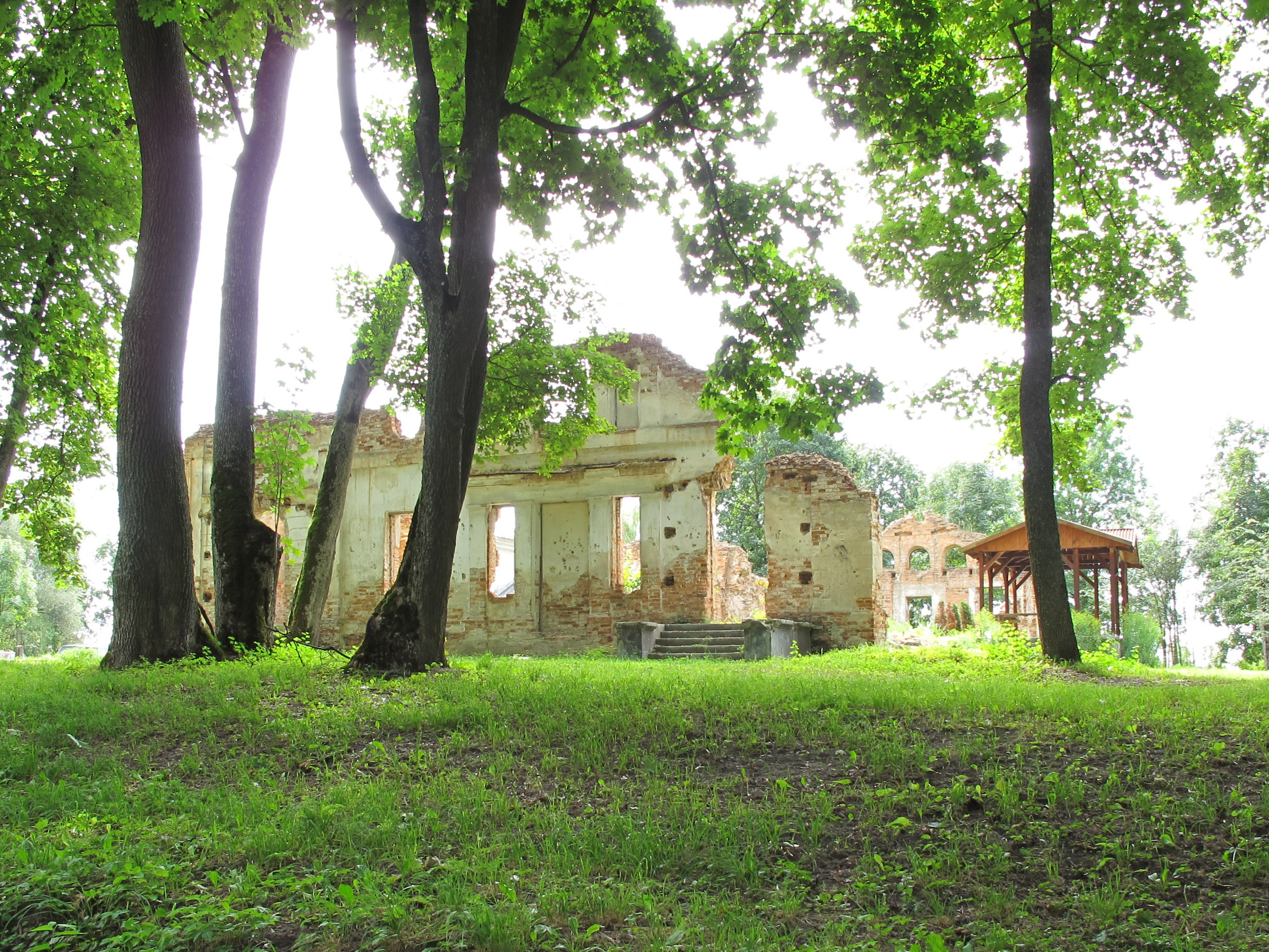 Ruins of the dwór in Hieronimowo, gmina Michałowo, podlaskie, Poland